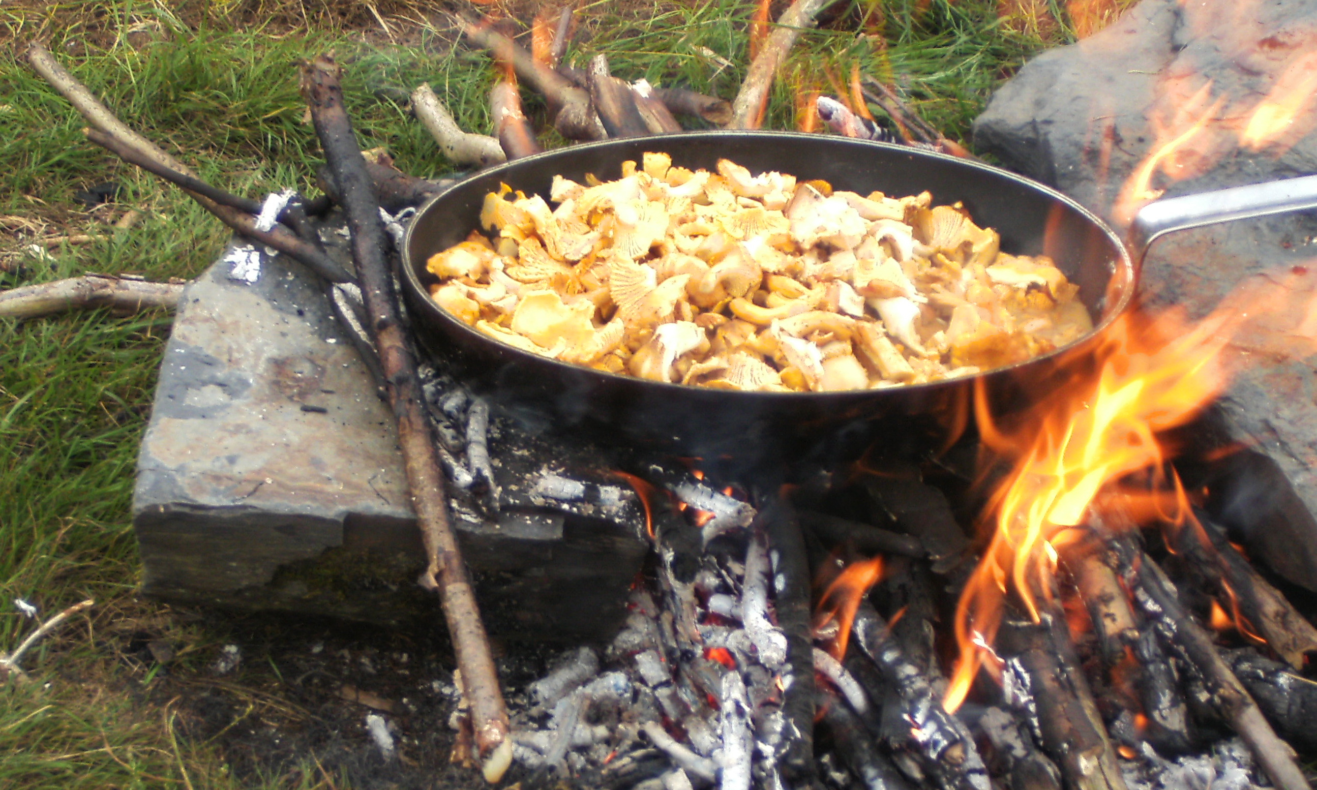 Chanterelle in wood-fired stove